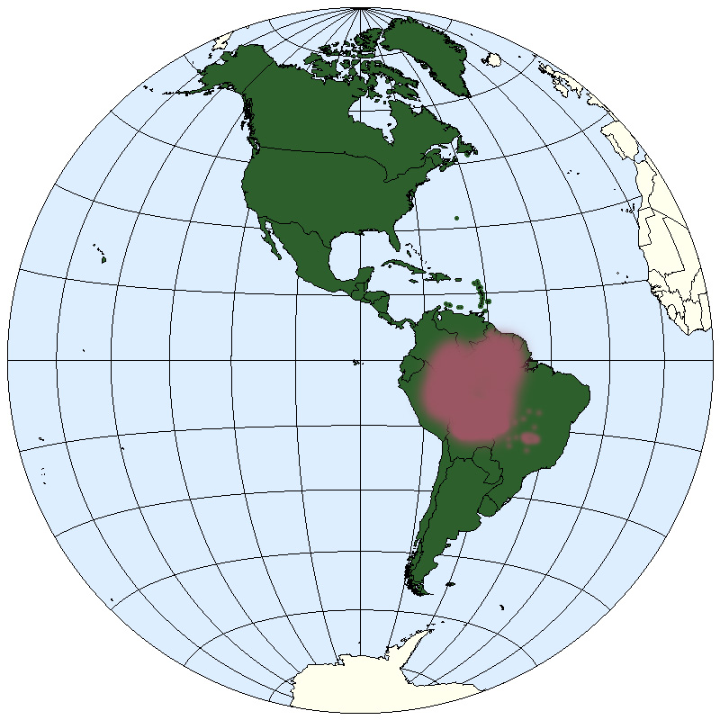 Area where Giant leaf frog (Phyllomedusa bicolor) is a hylid frog is found